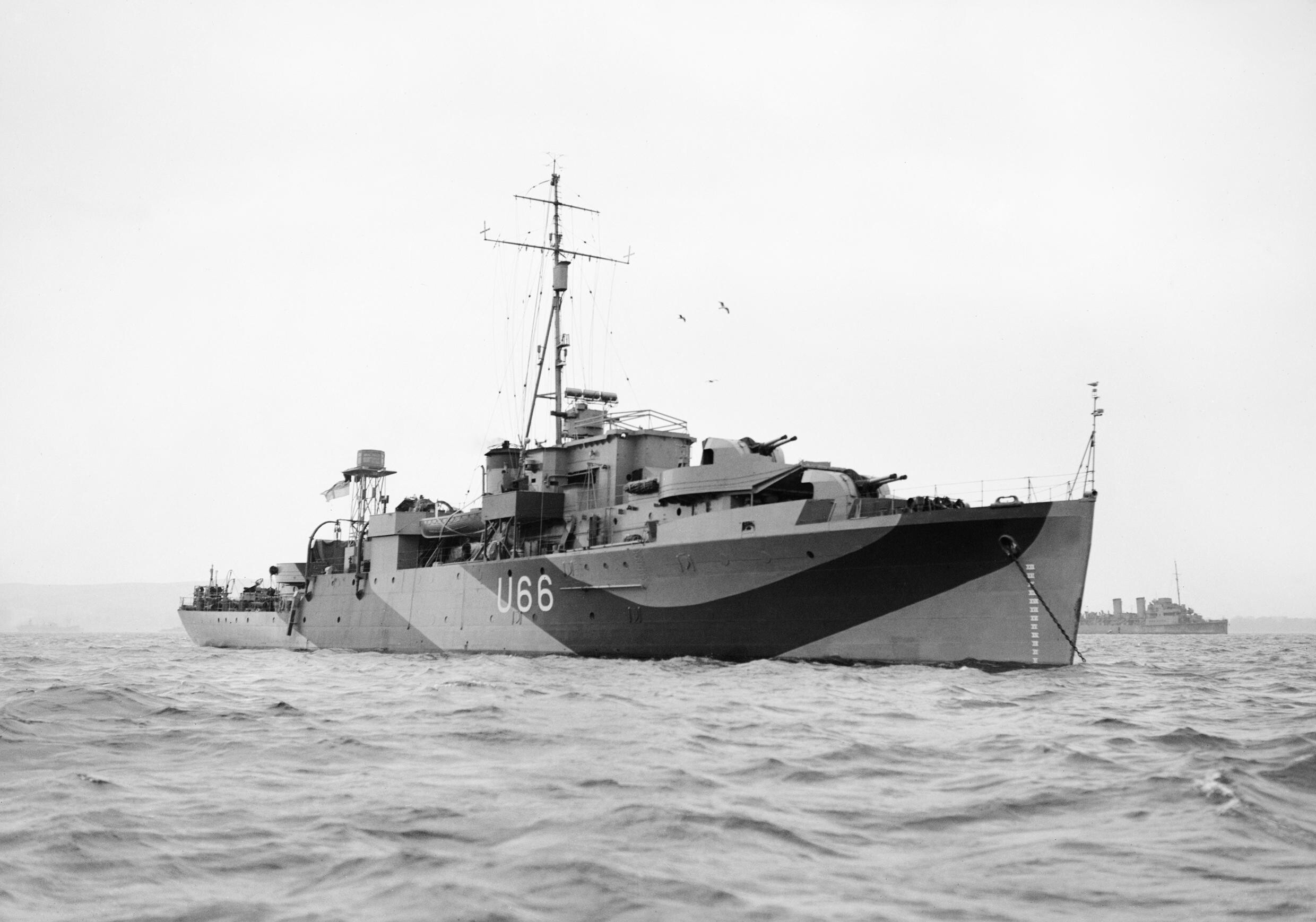 HMS STARLING at Greenock, 24 March 1943. HMS STARLING, leader of a group of British sloops which have just added two more victims to their impressive record of U-boats destroyed. During a North Atlantic patrol the first U-boat was illuminated by a starshell fired by HMS KITE NW of the Azores. After forcing her down by depth charges the KITE, WOODCOCK, AND STARLING shadowed the enemy until morning. At dawn HMS WOODCOCK dropped another pattern of depth charges, explosions were heard and the surface of the water littered with tell-tale oil and wreckage. Within 8 hours the second U-boat met her fate . She was detected by HMS wild goose and HMS STARLING delivered the coup de grace. (Text from early 1944).